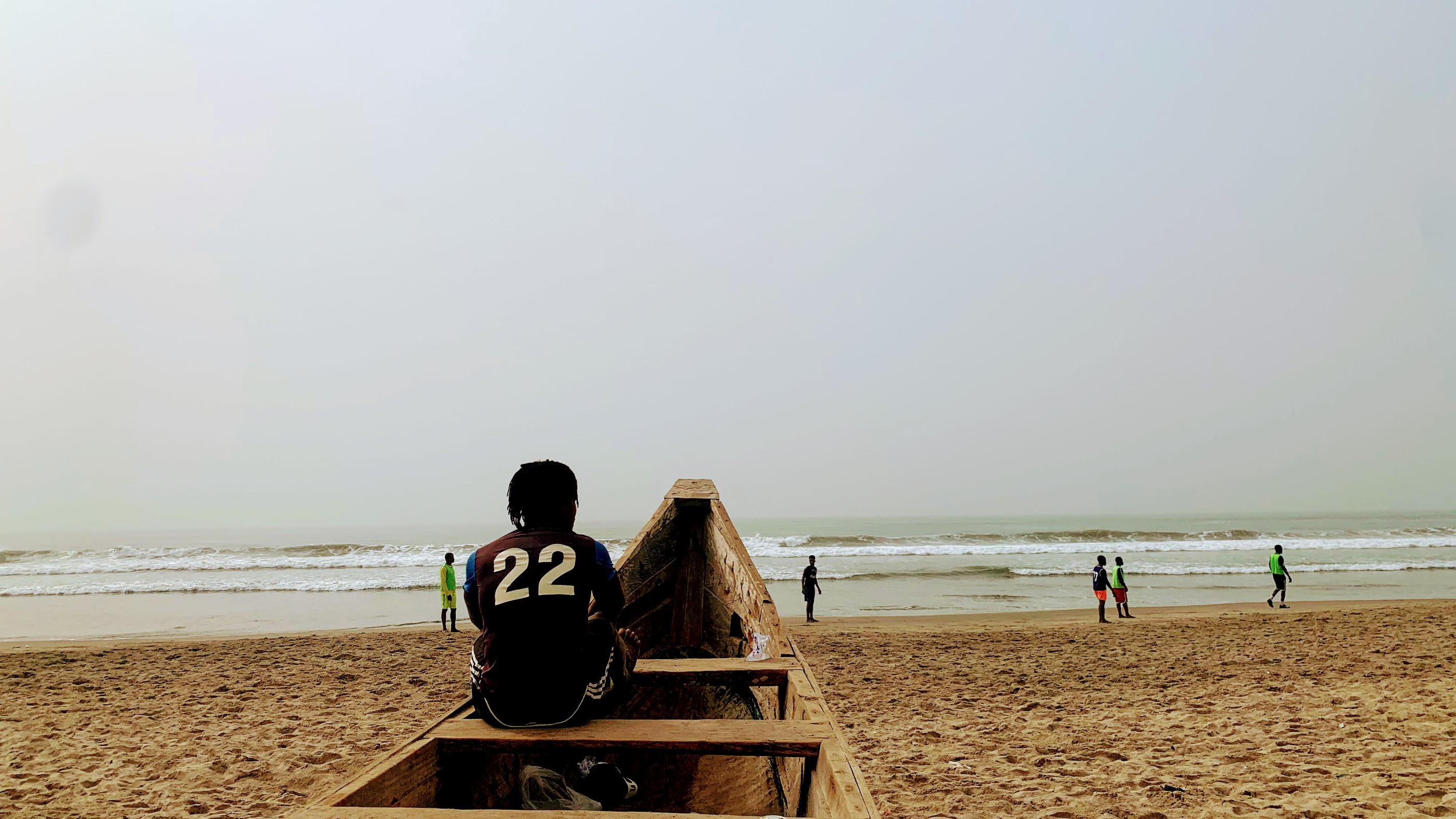 This photo has been taken in the country: Ghana